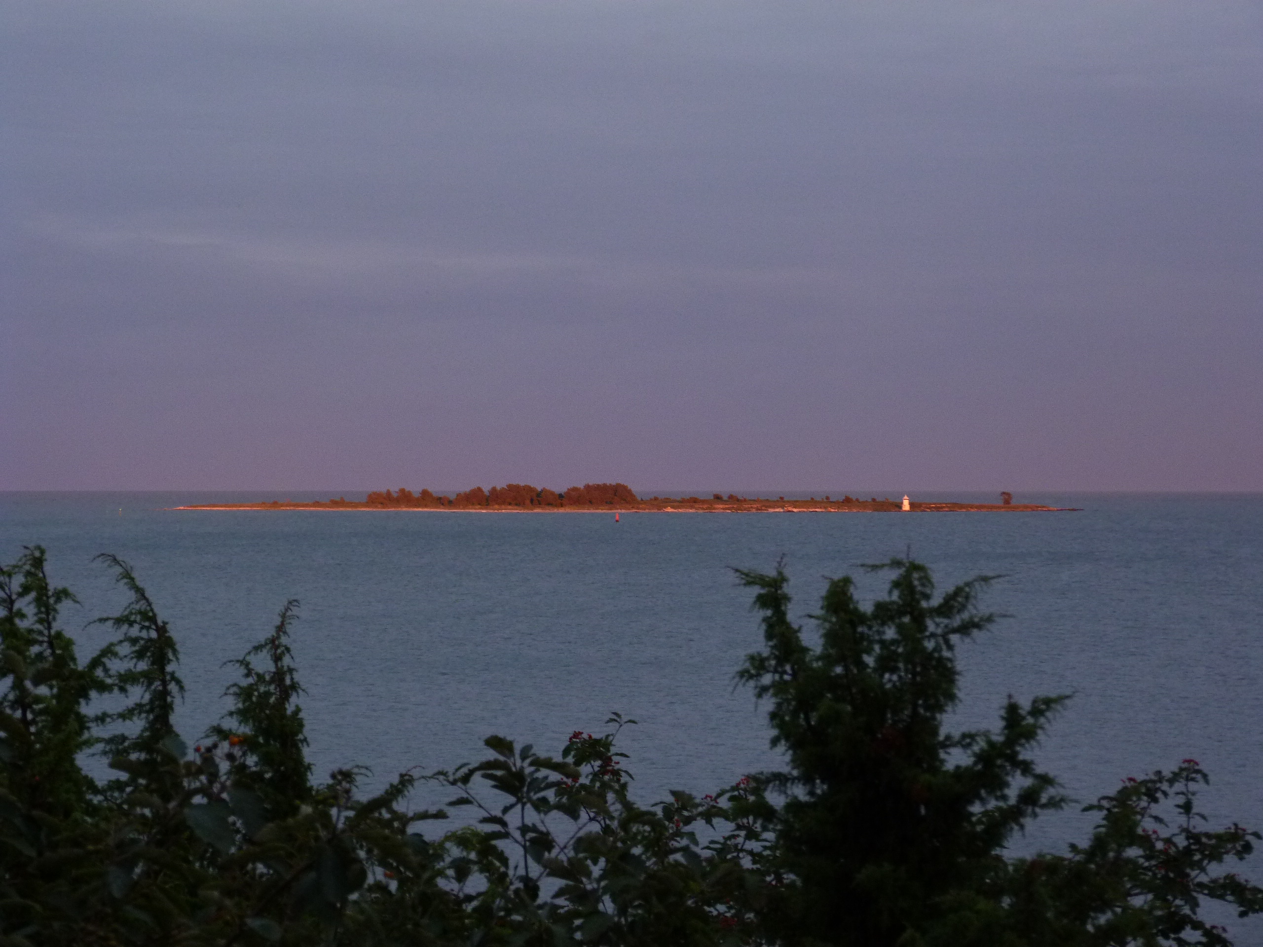 Grunnet, island in Slites archipelago